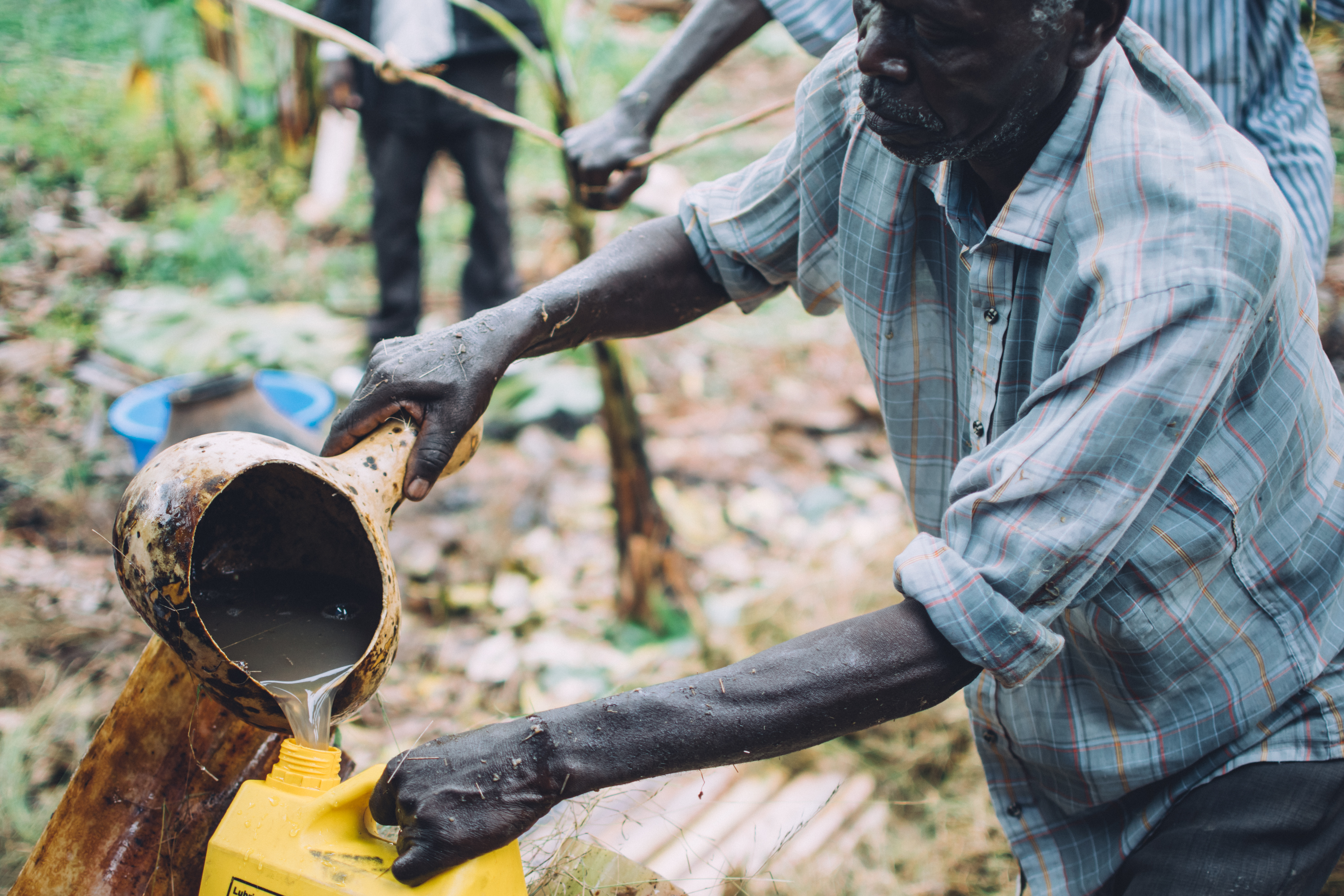 Old man making banana beer in Western Uganda. This is an image of "African people at work" from Uganda